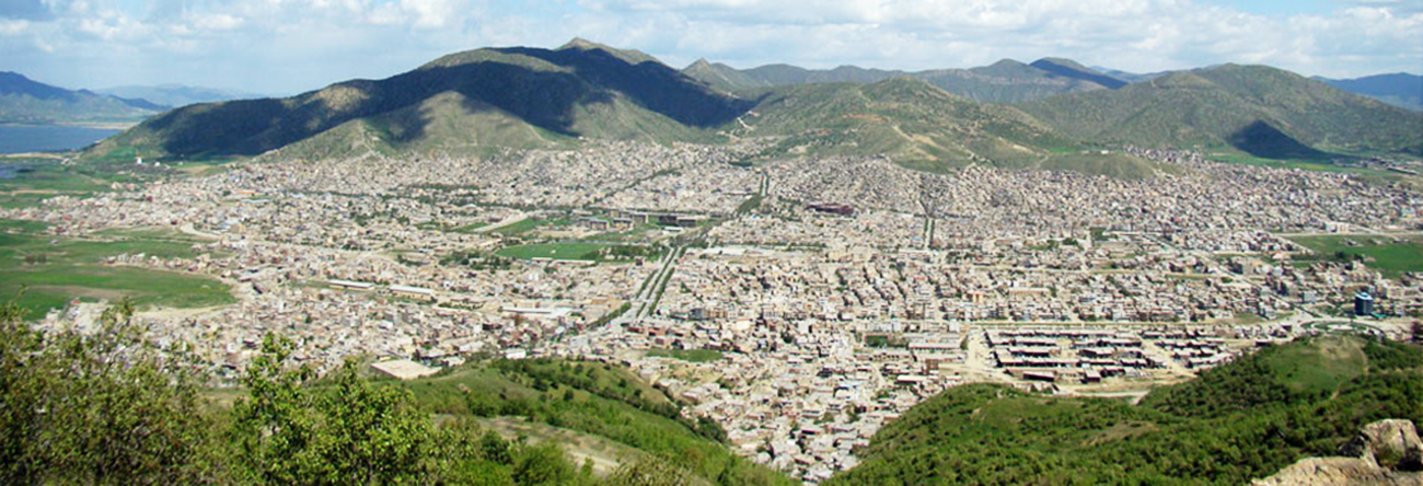 Panoramic view of Marivan City, Kordestan Province, Iran